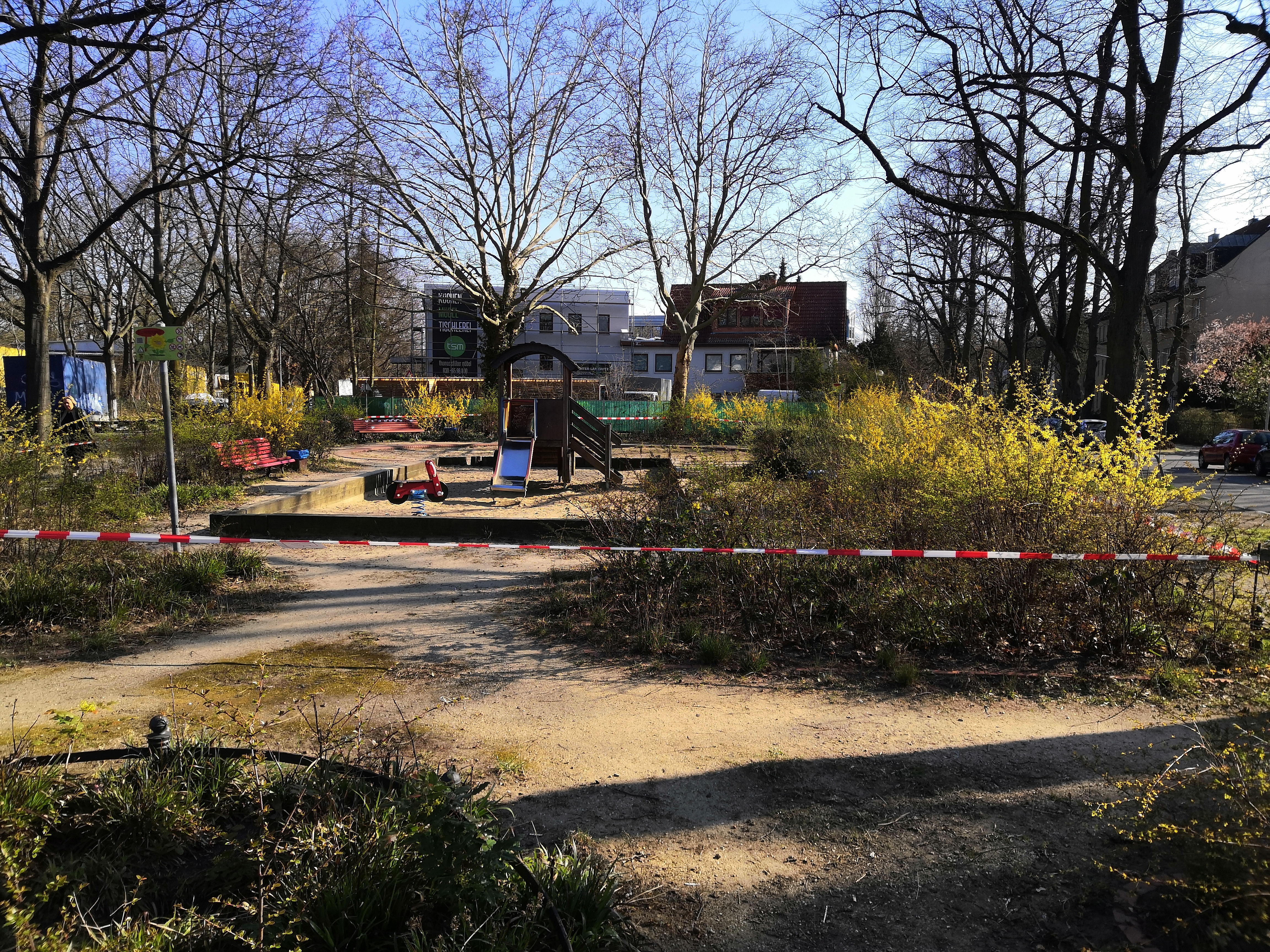 Closed off playground in Lankwitz, Berlin, during 2020 Coronavirus pandemic